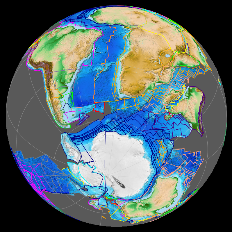 Opening of the South Atlantic Ocean at 83 Ma: South Atlantic fully opened; the Walvis Ridge and Rio Grande Rise split. View centered on present location of the Bouvet Triple Junction.